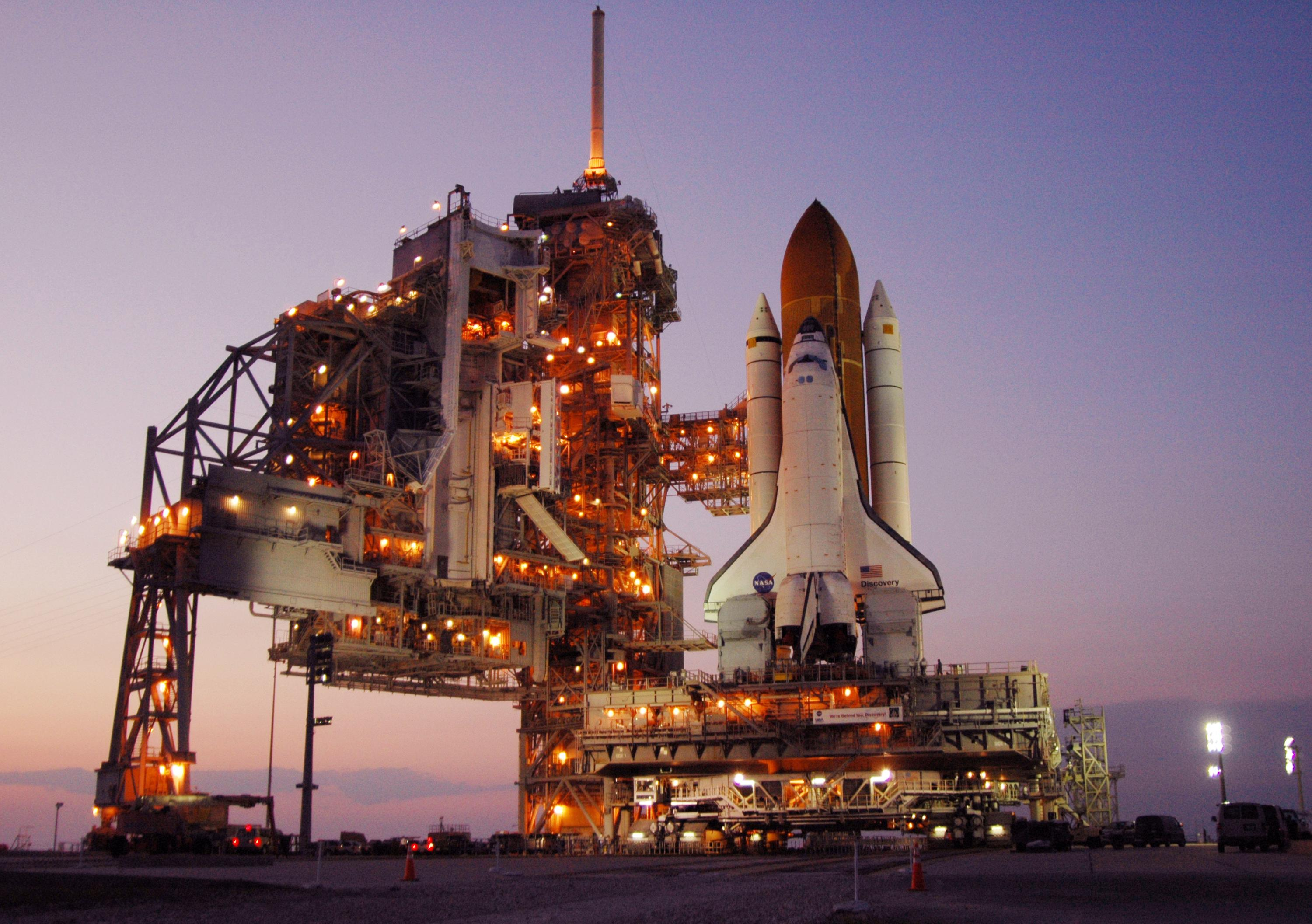 Amid the glow of lights from the fixed and rotating service structures, Space Shuttle Discovery rests on the hardstand of Launch Pad 39B at NASA's Kennedy Space Center.